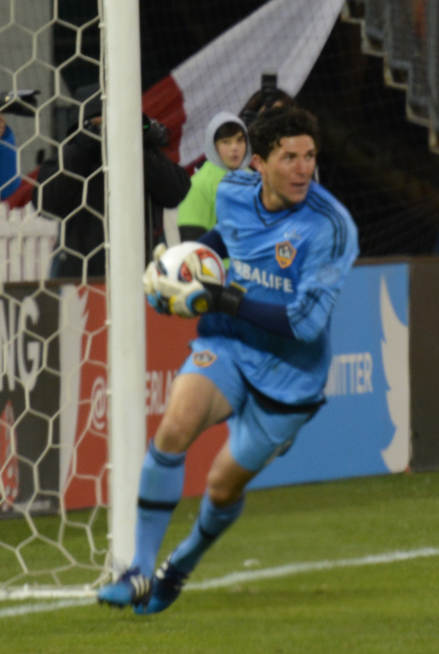 Brian Rowe playing for LA Galaxy, March 2015